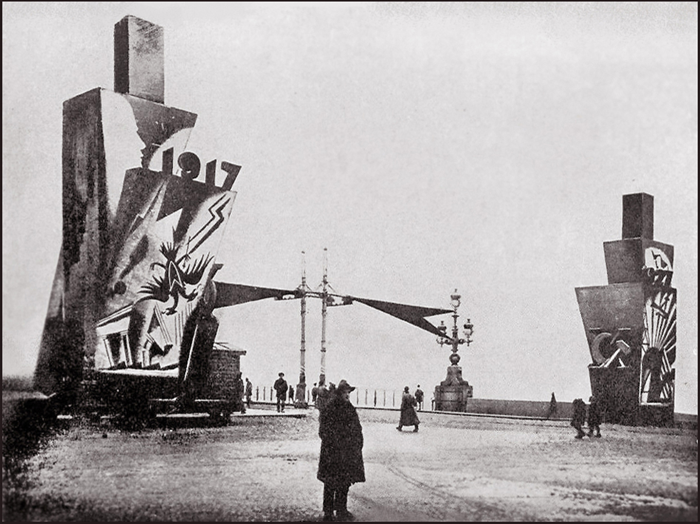 Festive decoration of the Equality (Trinity) Bridge in Petrograd for the 10th anniversary of the October Revolution. Architects: O. Lyalin and I. Fomin (1927).